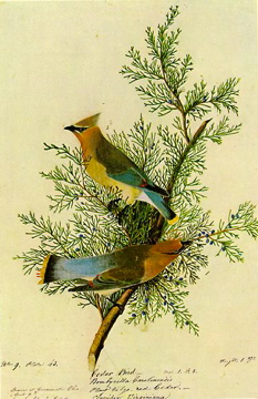 Illustration of Bombycilla cedrorum by John James Audubon